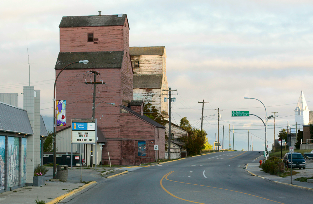 Grain elevators in Creston, British Columbia, Canada